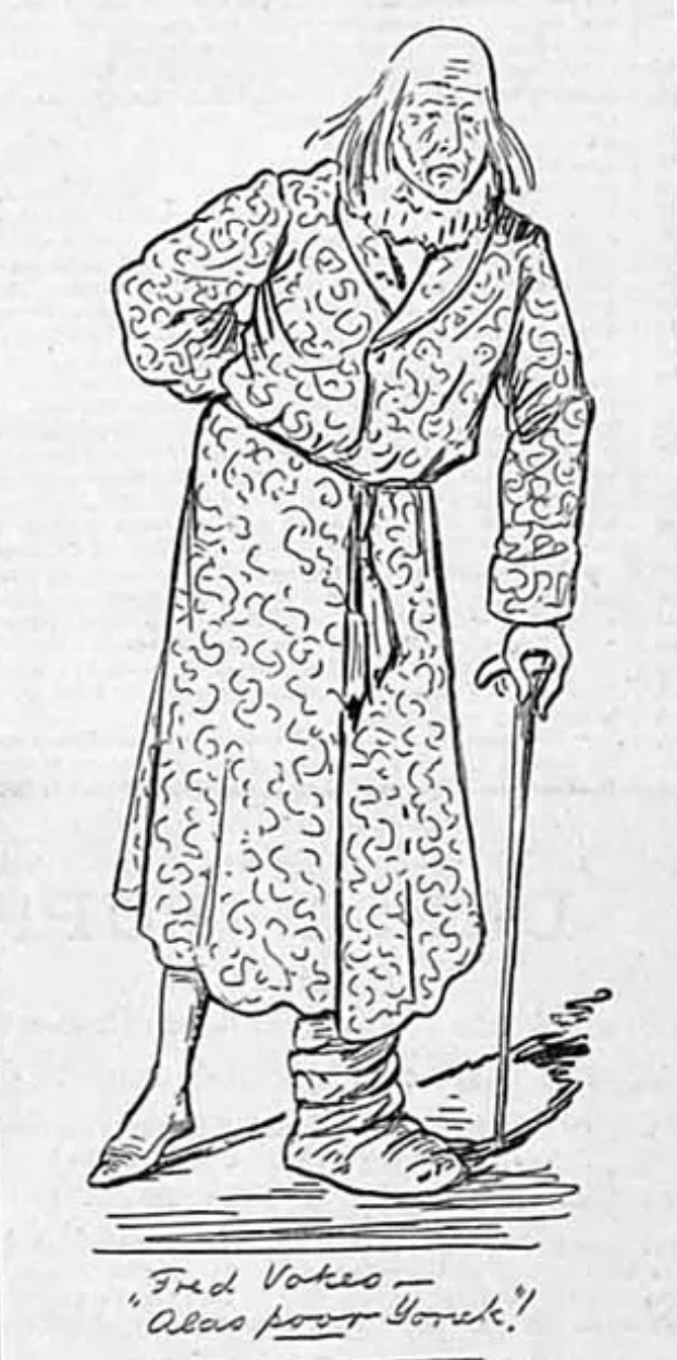 The actor and dancer Fred Vokes (1846-1888) as Baron Pumpernickel in the Drury Lane pantomime ‘Cinderella’ (1878)